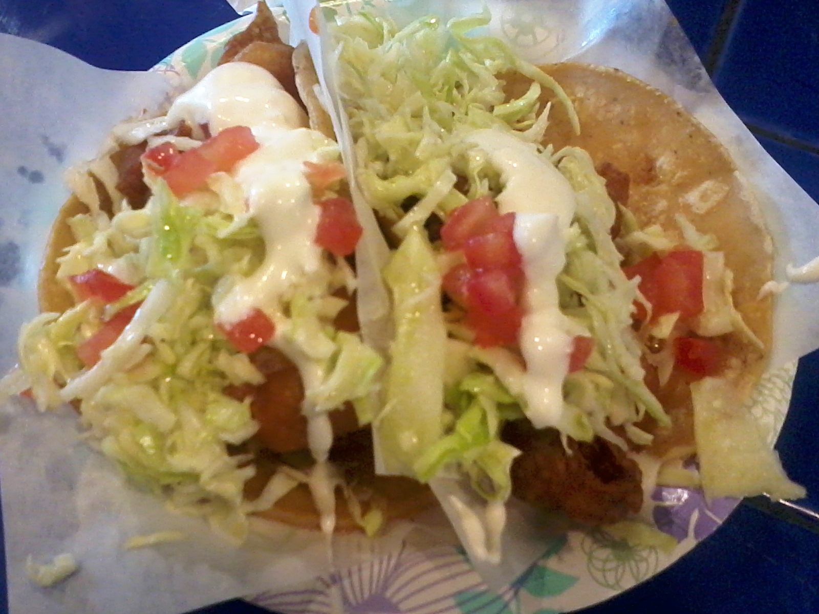 Two fish tacos from TJ Oyster Bar in Bonita, California